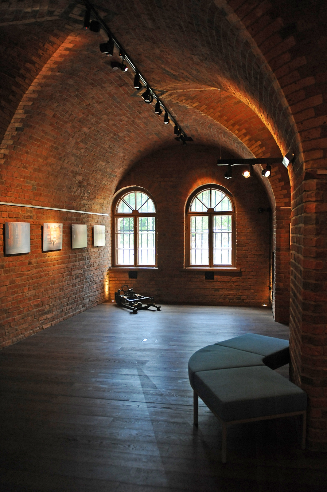 Cathedral Lock in Poznań, interior (upper level, northern room)